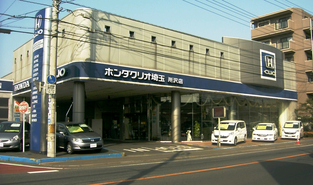 “Honda_CLIO_Car_dealership_Tokorozawa_Saitama”